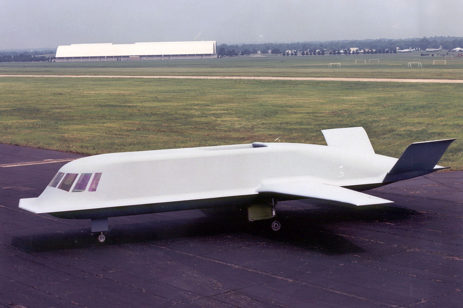 Tacit Blue Whale at the National Museum of the United States Air Force.